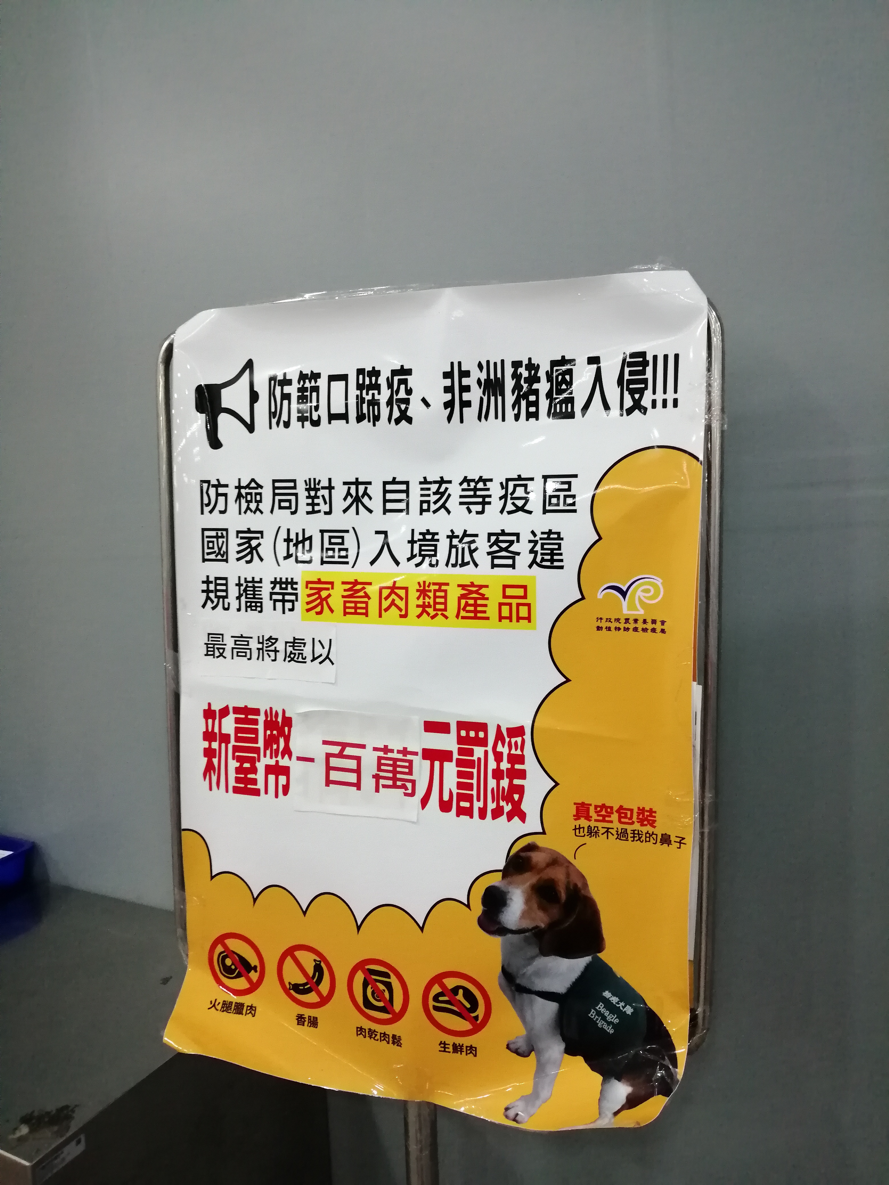 A notice shows warning threats of 2018 Asfarviridae outbreak. The poster is taken by my smartphone in departure area of Shuitou Wharf.